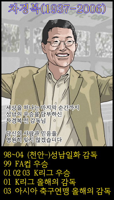 Schadarapa(Kim Keun-seok)'s tribute.